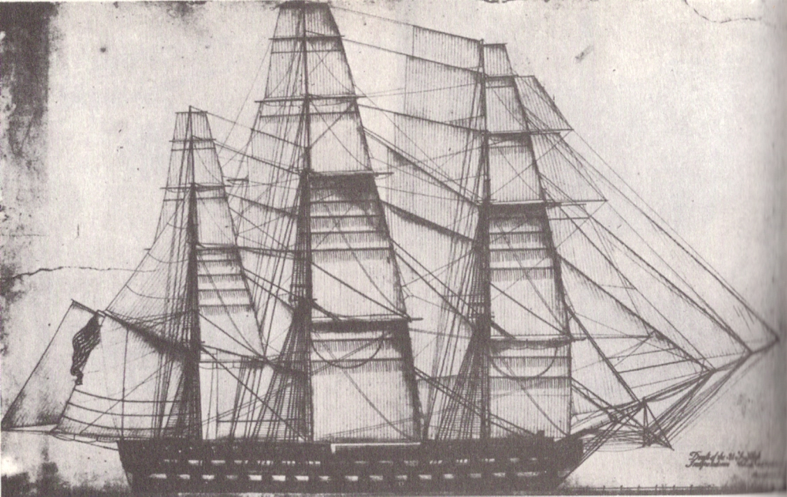 Master sailmakers plan of the United States Navy ship-of-the-line